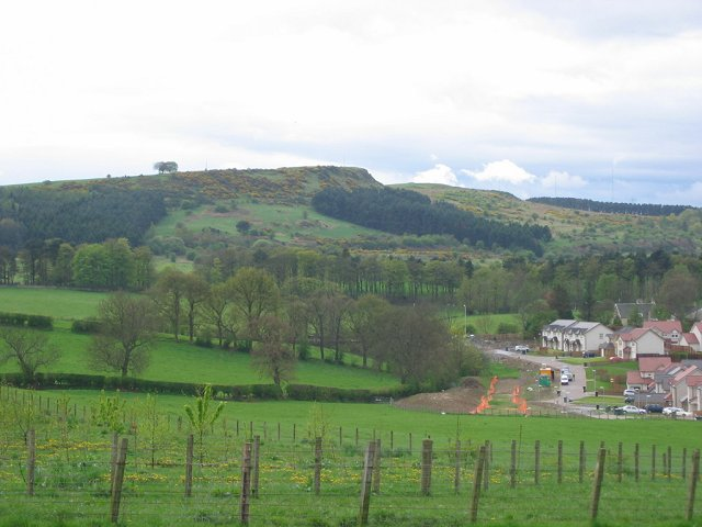 Hallside. View to Dechmont Hill. New houses at Hallside being built below.